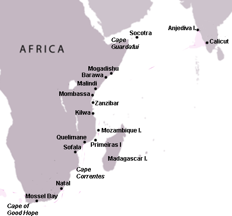 Basic map of East Africa, showing main cities c. 1500, and geographical points.